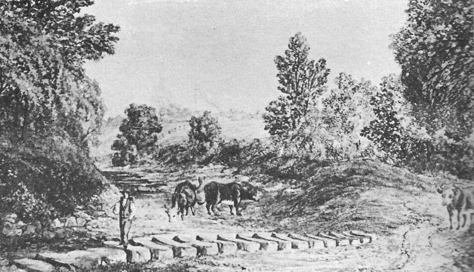 The Lepping Stones across the River Don at Wadsley Bridge in a 1779 etching. The neighbouring bridge is not shown.